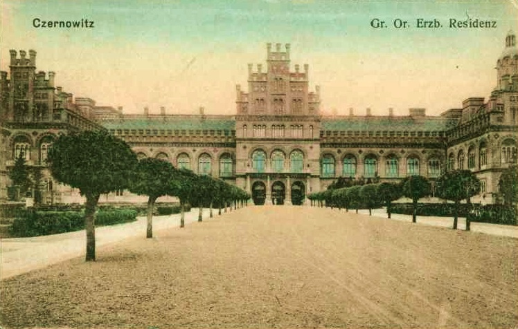 Chernivtsi, western Ukraine, old prewar postcard.